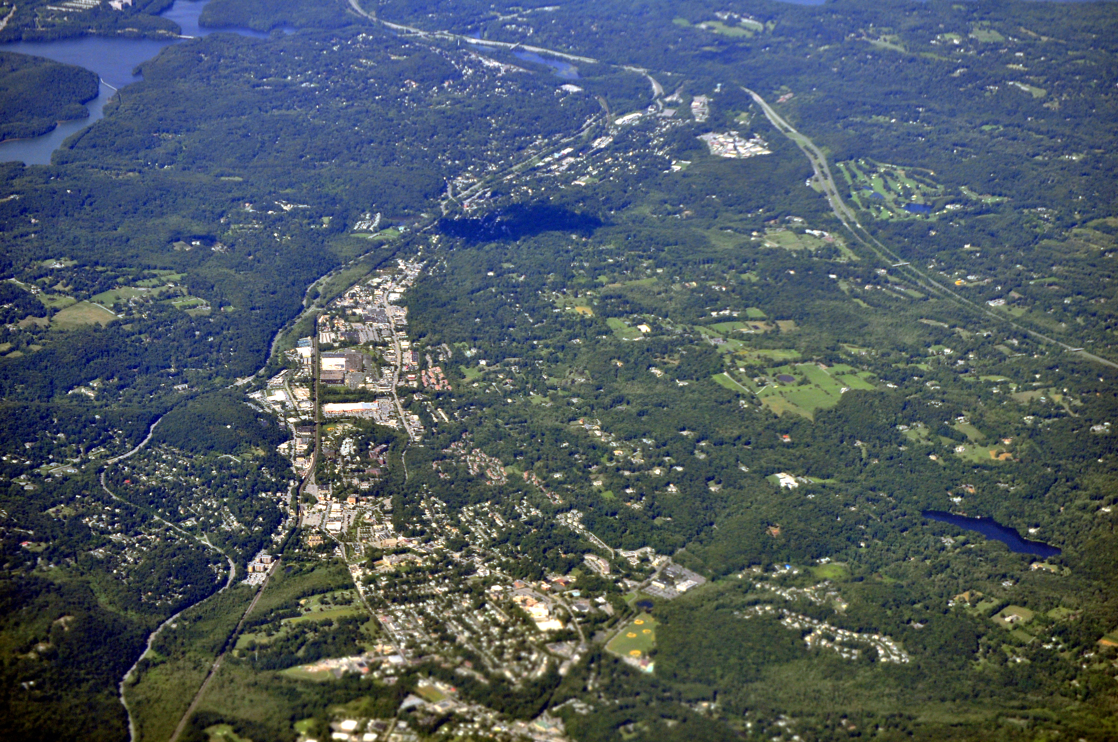 Aerial view of Mount Kisco, New York, also showing Katonah, New York.